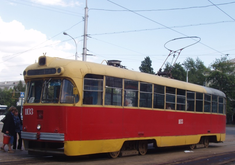 Type RVZ-6M2 tram in Ufa, Russian Federation. Car number 1103, on the line number 10